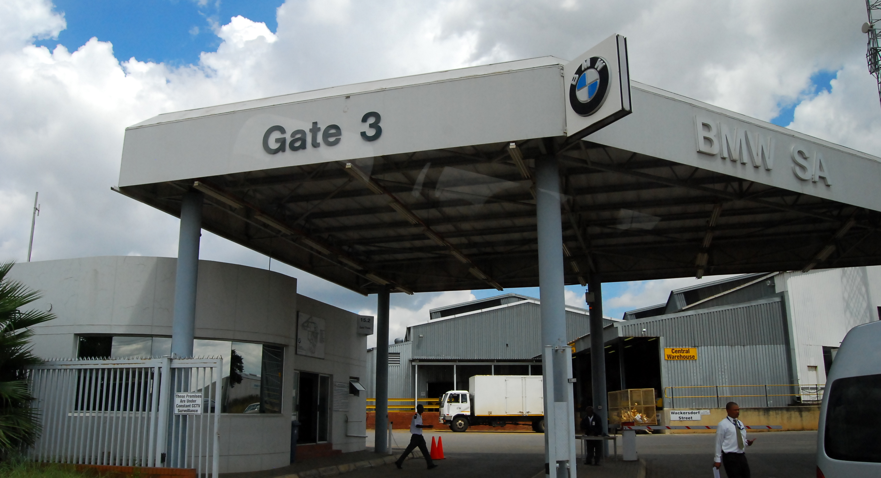 BMW bate at Rosslyn in the city of Tshwane